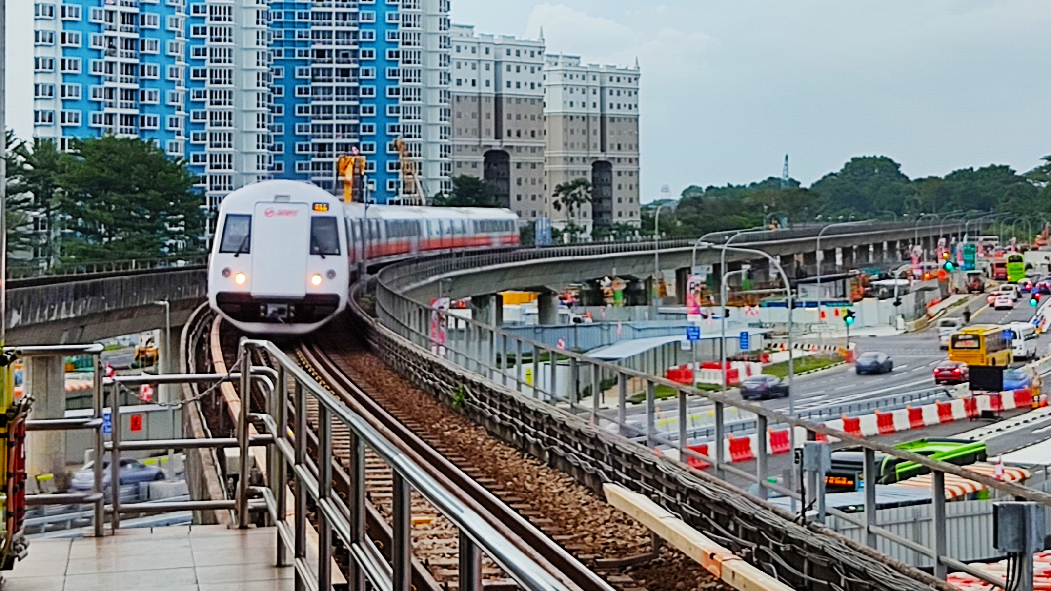 NSL Kawasaki C151b train